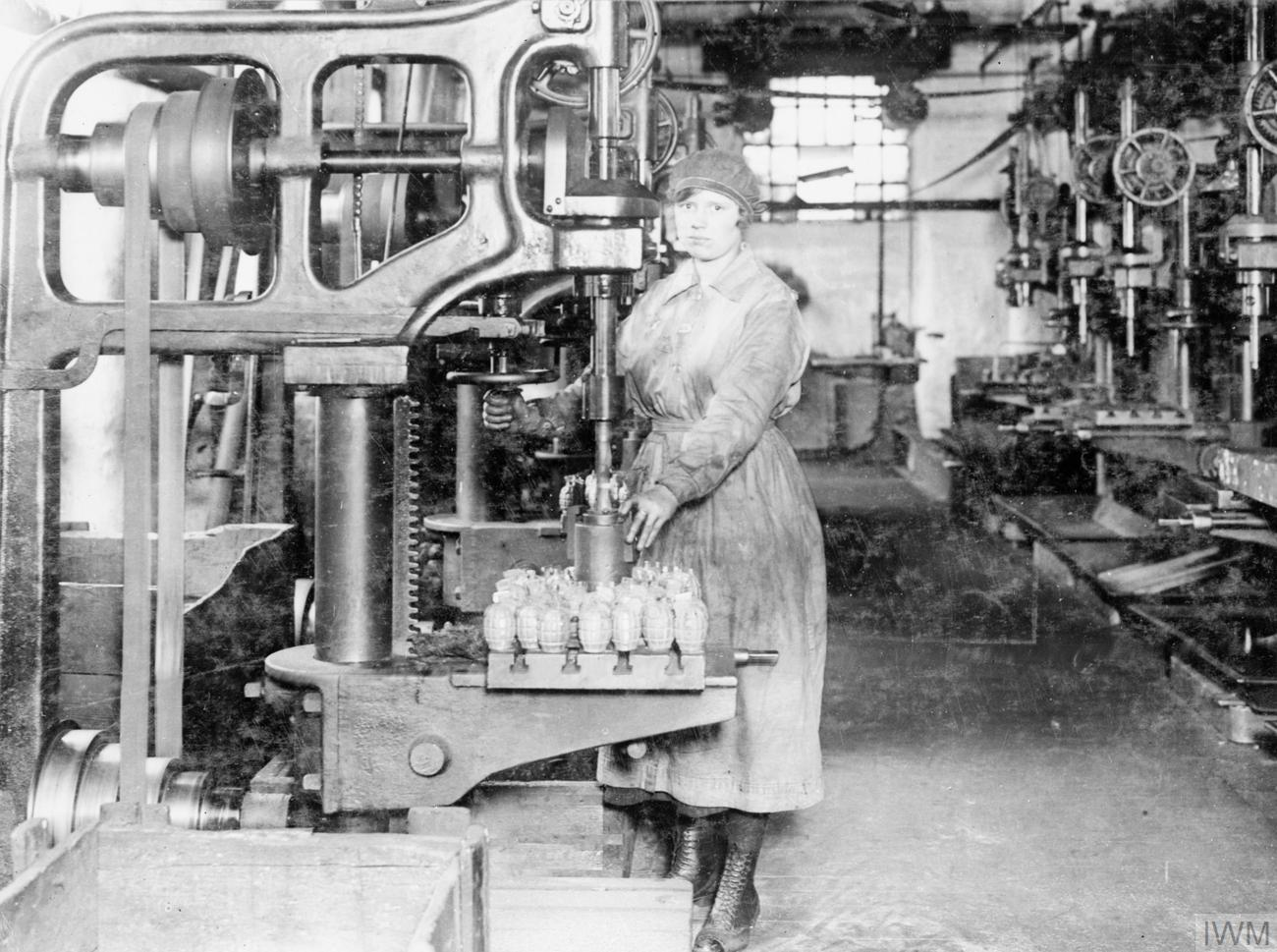 Industry during the First World War A female worker drilling the bodies of Mills hand grenades in a British workshop during the First World War.